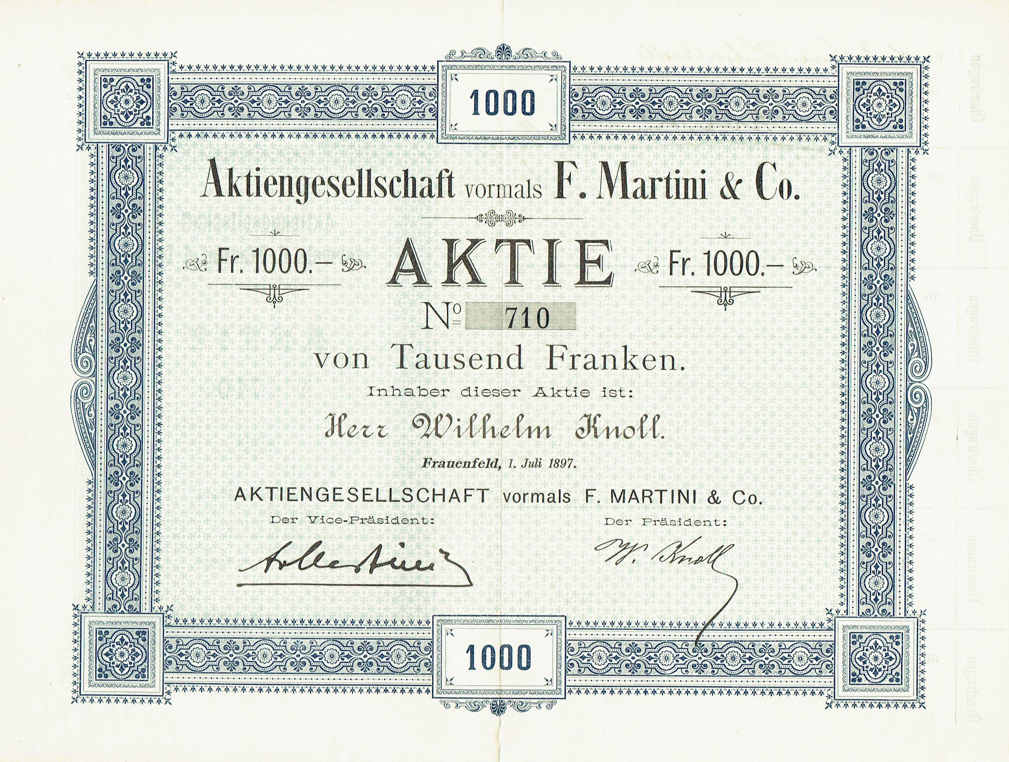 Share of the AG vormals F. Martini & Co., issued 1. July 1897